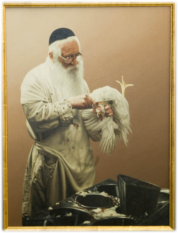 Description: Shochet Artist: Ferguson, Max Date: 2003 Medium: oil; canvas Persistent URL: Repository: Yeshiva University Museum Accession number: 2006.288 Rights Information: No known copyright restrictions; may be subject to third party rights. For more copyright information, click here. See more information about this image and others at CJH Museum Collections.